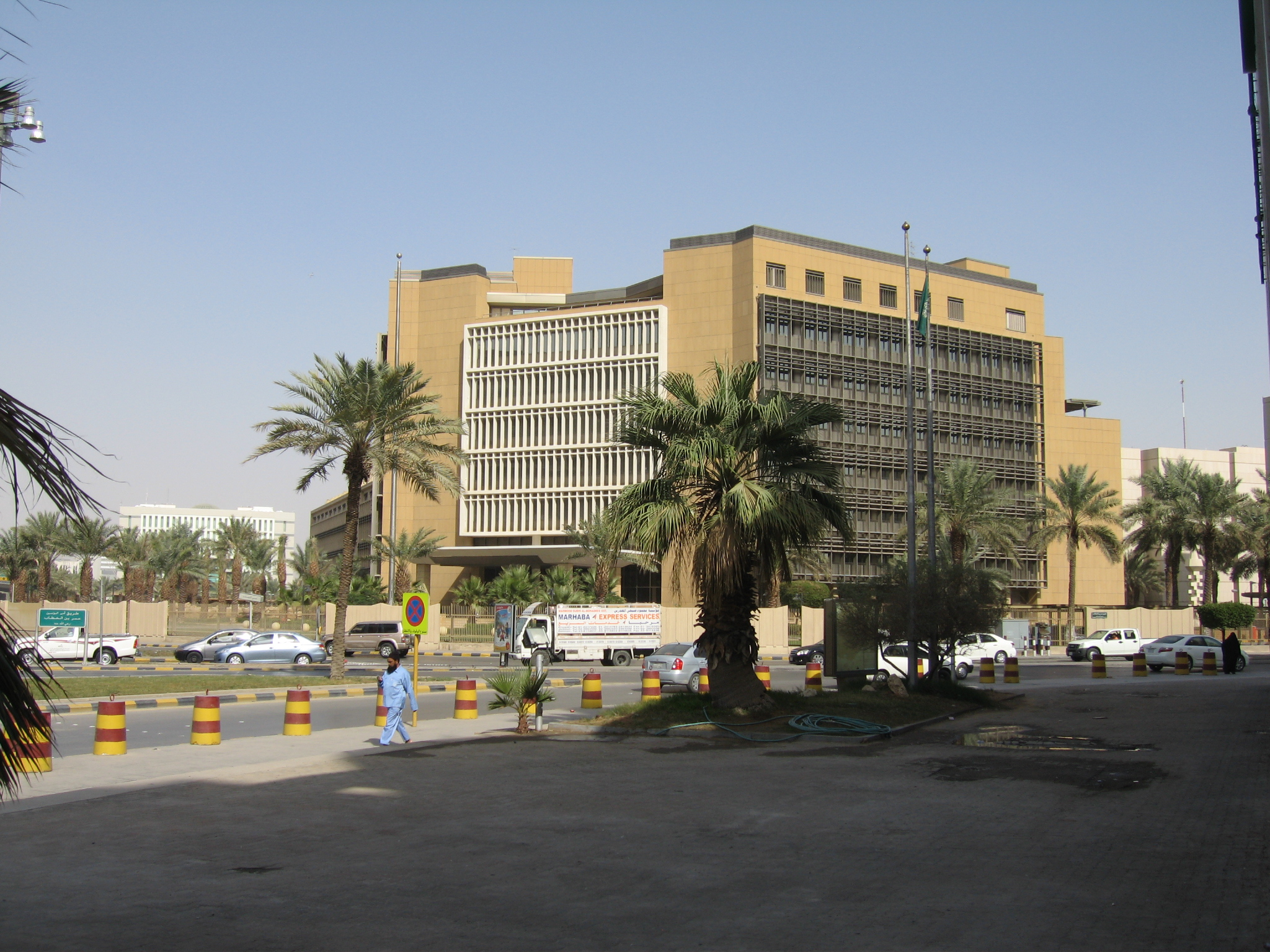 Ministry of Finance building in Riyadh, Saudi Arabia